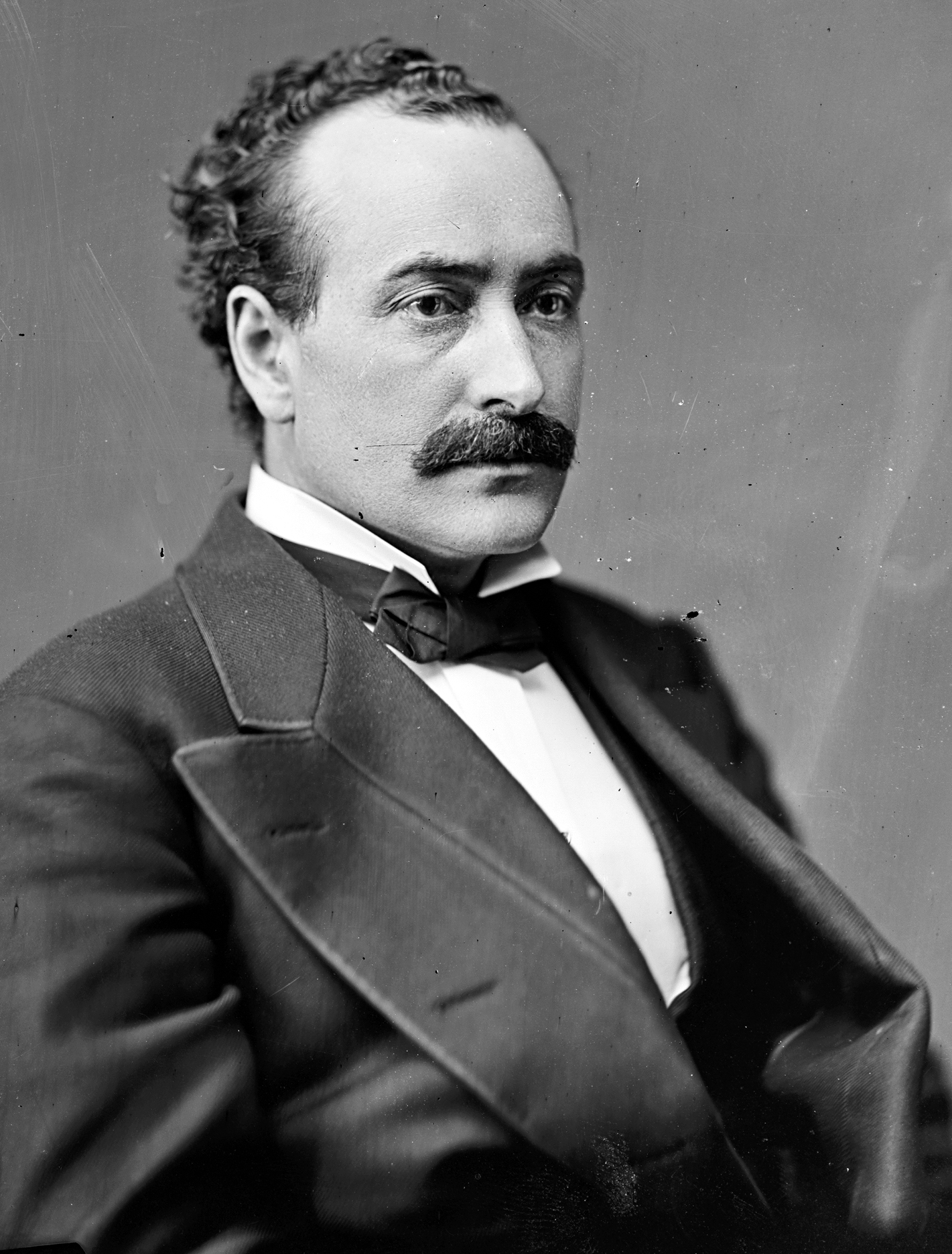 George H. Durand, US Representative from Michigan